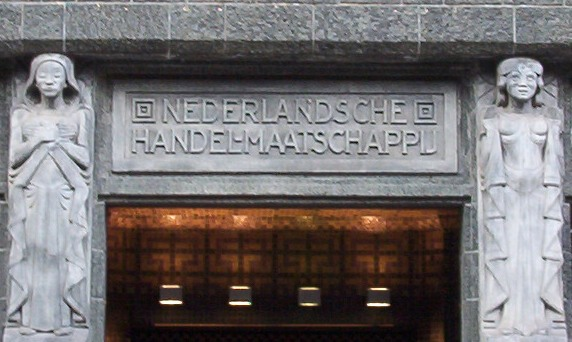 De Bazel, Vijzelstraat 32, Amsterdam. Home to the Amsterdam Archives